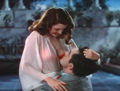 Cropped screenshot of Rita Hayworth and Tyrone Power from the trailer for the film Blood and Sand.